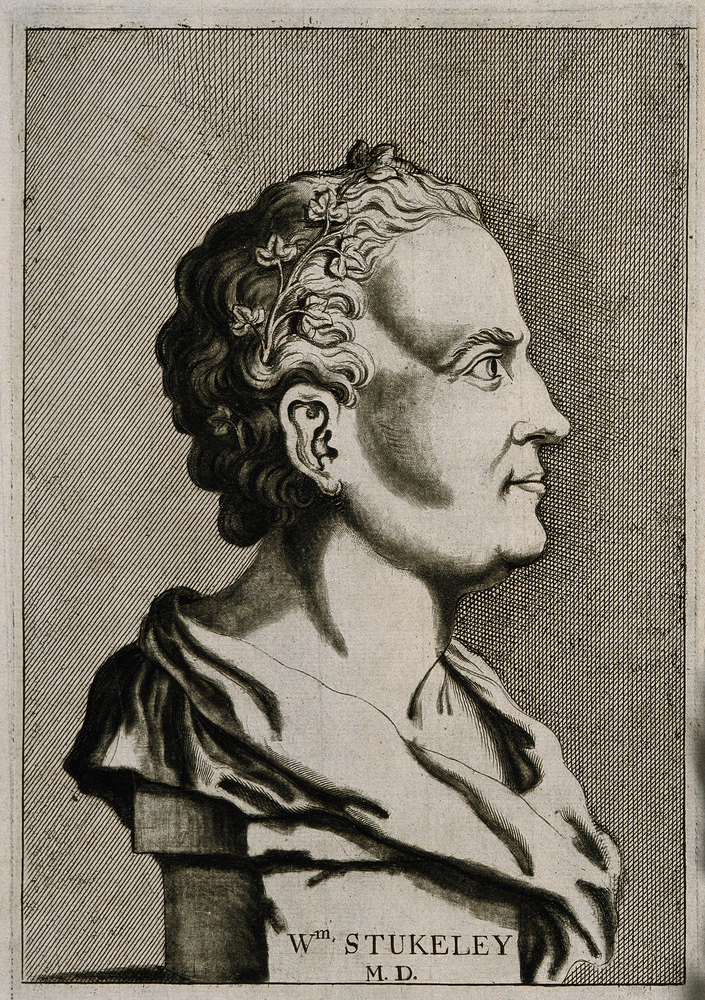 William Stukeley. Line engraving, 1776, after I. Whood, 1727. Iconographic Collections Keywords: portrait prints; William Stukeley; engravings; I. Whood